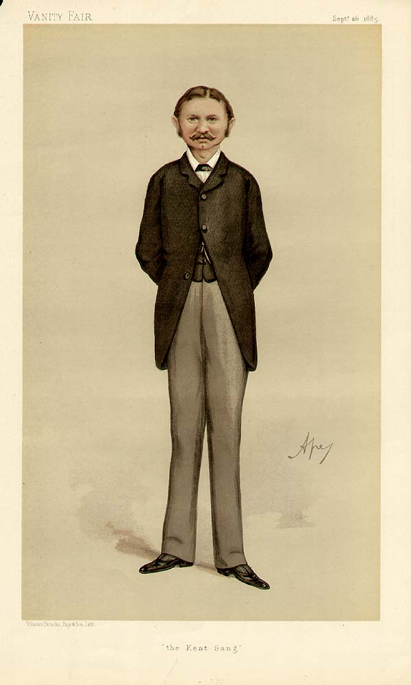 Caricature of Aretas Akers-Douglas, 1st Viscount Chilston. Caption reads "The Kent Gang".